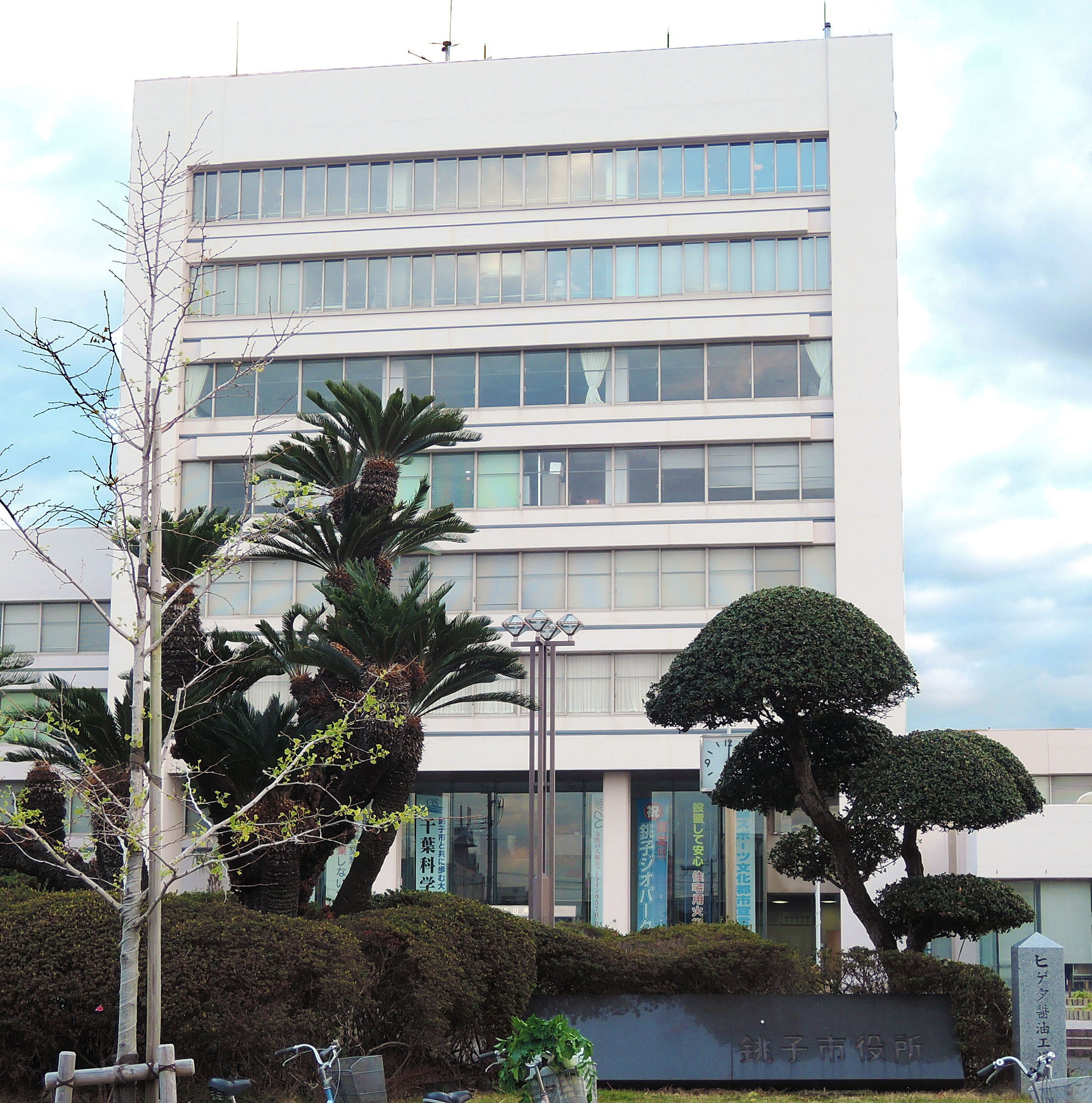 Choshi city hall,Chiba prefecture,Japan